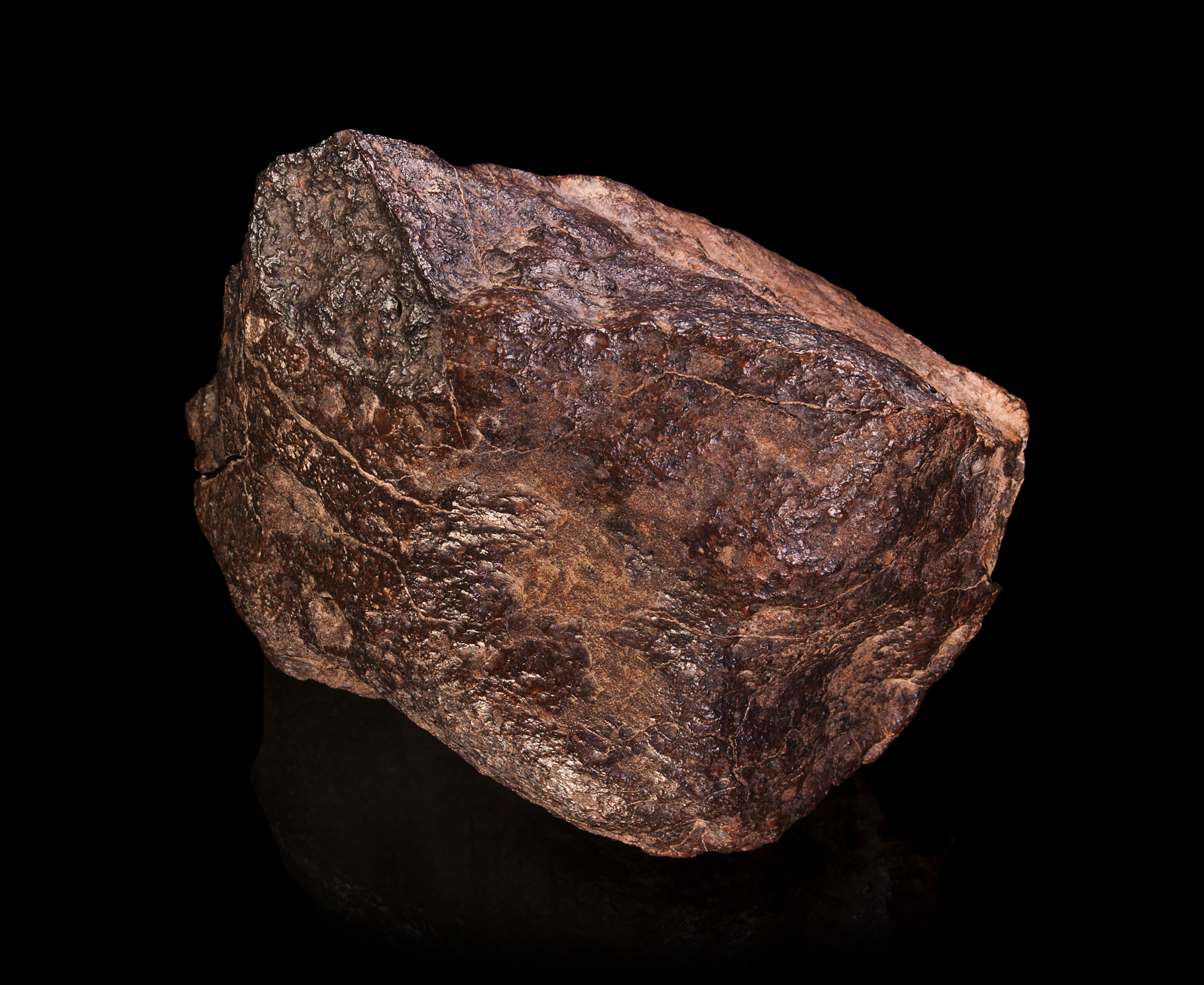 Stony meteorite, H5 chondrite. Crust Melting visible. Dar Bou Nali South Morocco. (Size 11.3x8.6x8.5 cm) 1140 grams. Analyzed but unclassified meteorite.[1]